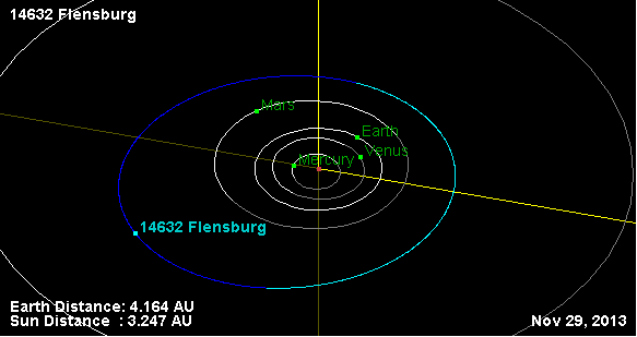 This diagram illustrates the orbit of the Main-Belt Asteroid 14632 Flensburg.